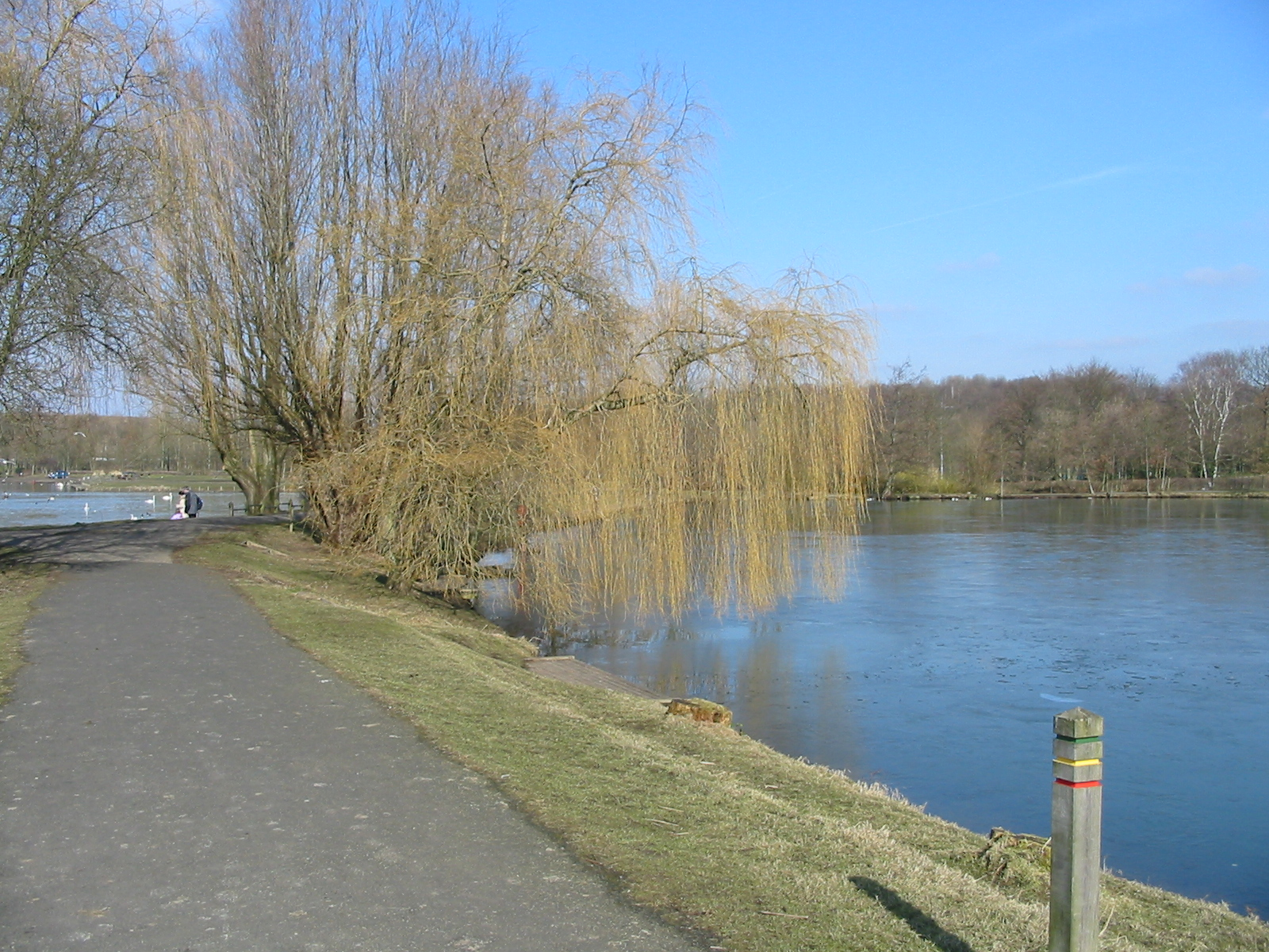 View of the two main lodges, Moses Gate Country Park, Bolton, UK. Taken by Geotek 2005